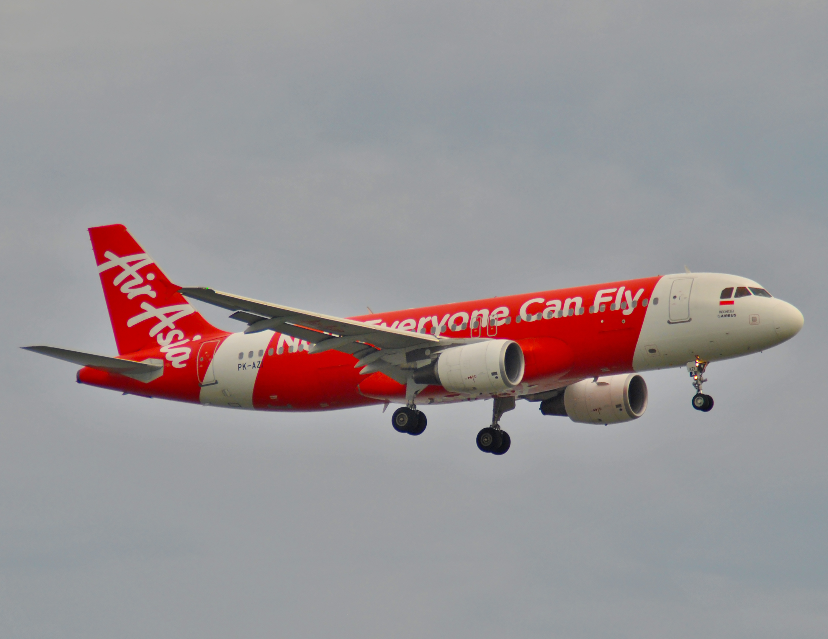 Indonesia AirAsia Airbus A320-200 (PK-AZI) on final approach at Ngurah Rai Airport.